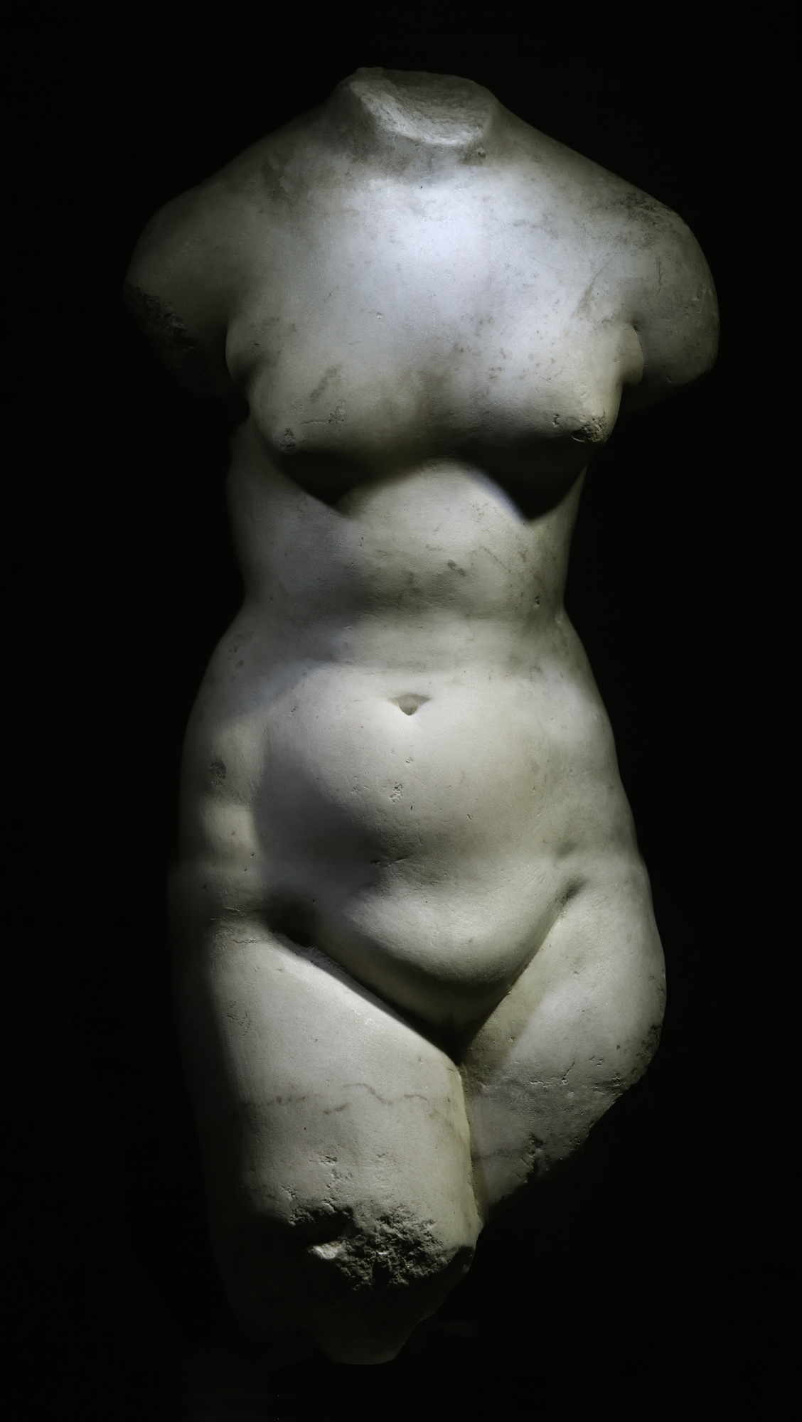 Description: Venus of Epfach. In romanian times, Epfach was a imortant place of trade and had the name Abodiacum. Taken at Prähistorische Staatssammlung, Munich, Germany